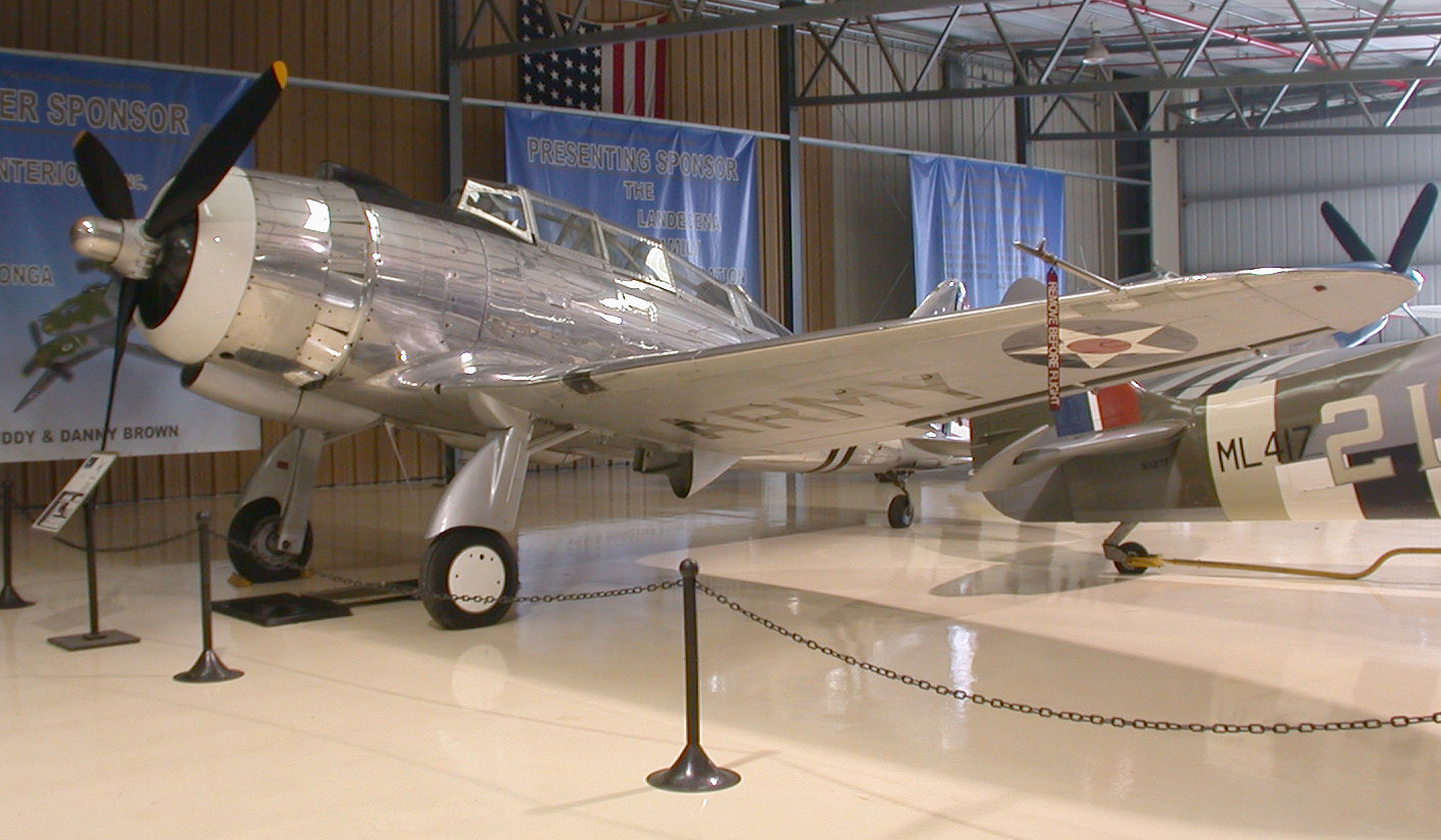 Republic AT-12 Guardsman, Planes Of Fame Museum, Chino, California